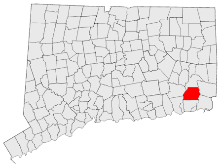 Location of Ledyard, Connecticut